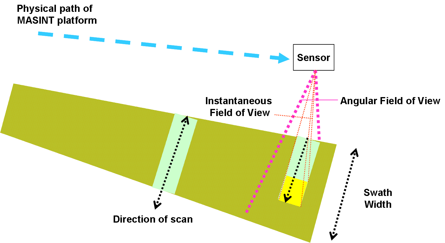 "Sensor Geometry" expresses several key factors in the relationship between a remote sensor and its target.